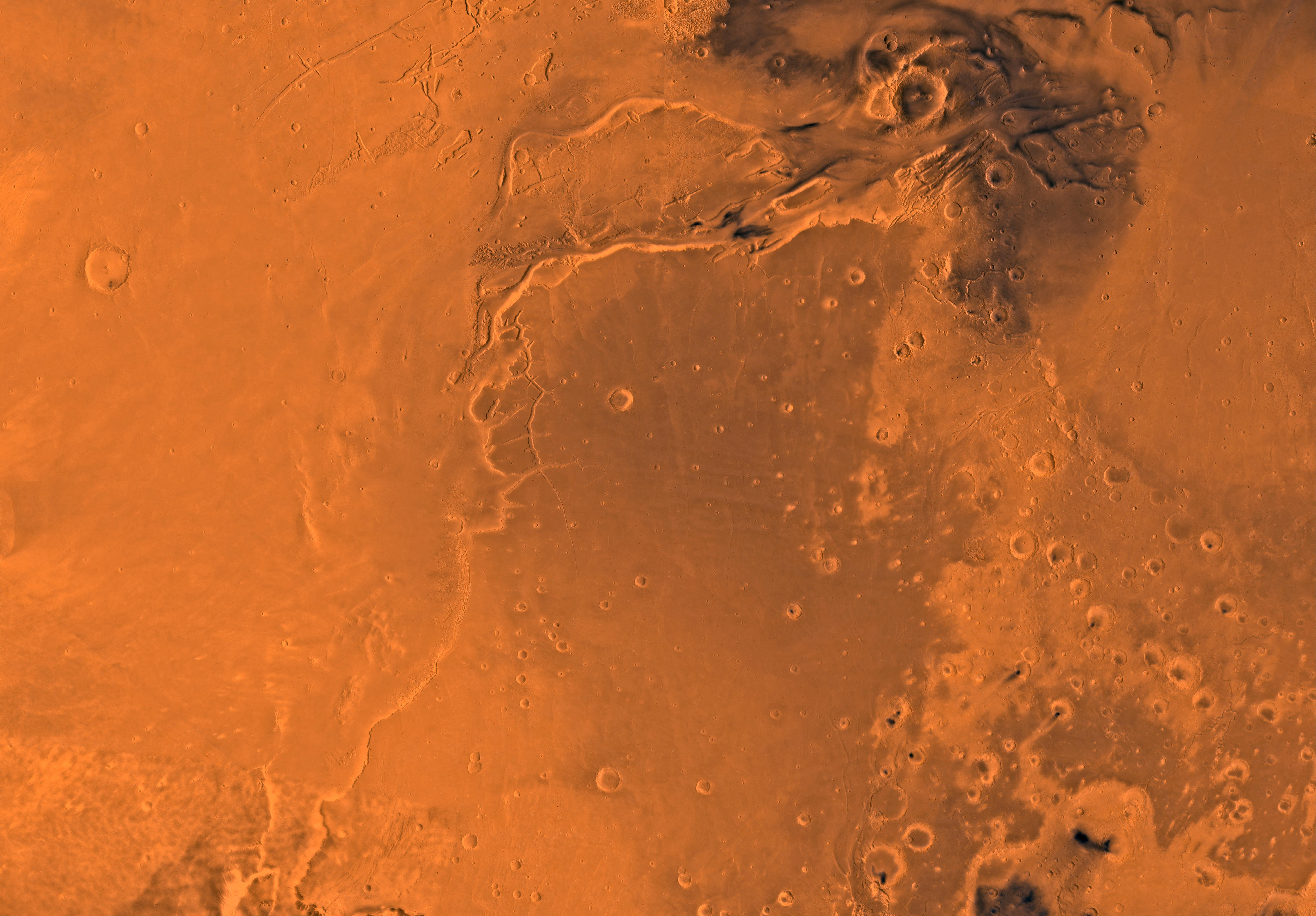 PIA00170: MC-10 Lunae Palus Region Mars digital-image mosaic merged with color of the MC-10 quadrangle, Lanae Palus region of Mars. The western part is dominated by lava flows of the Tharsis region. The central part includes ridged terrain of Lunae Planum. The west and north borders of Lunae Planum are dissected by the large, relatively young outflow channel, Kasei Vallis, which terminates in Chryse Planitia. Latitude range 0 to 30 degrees, longitude range 45 to 90 degrees.